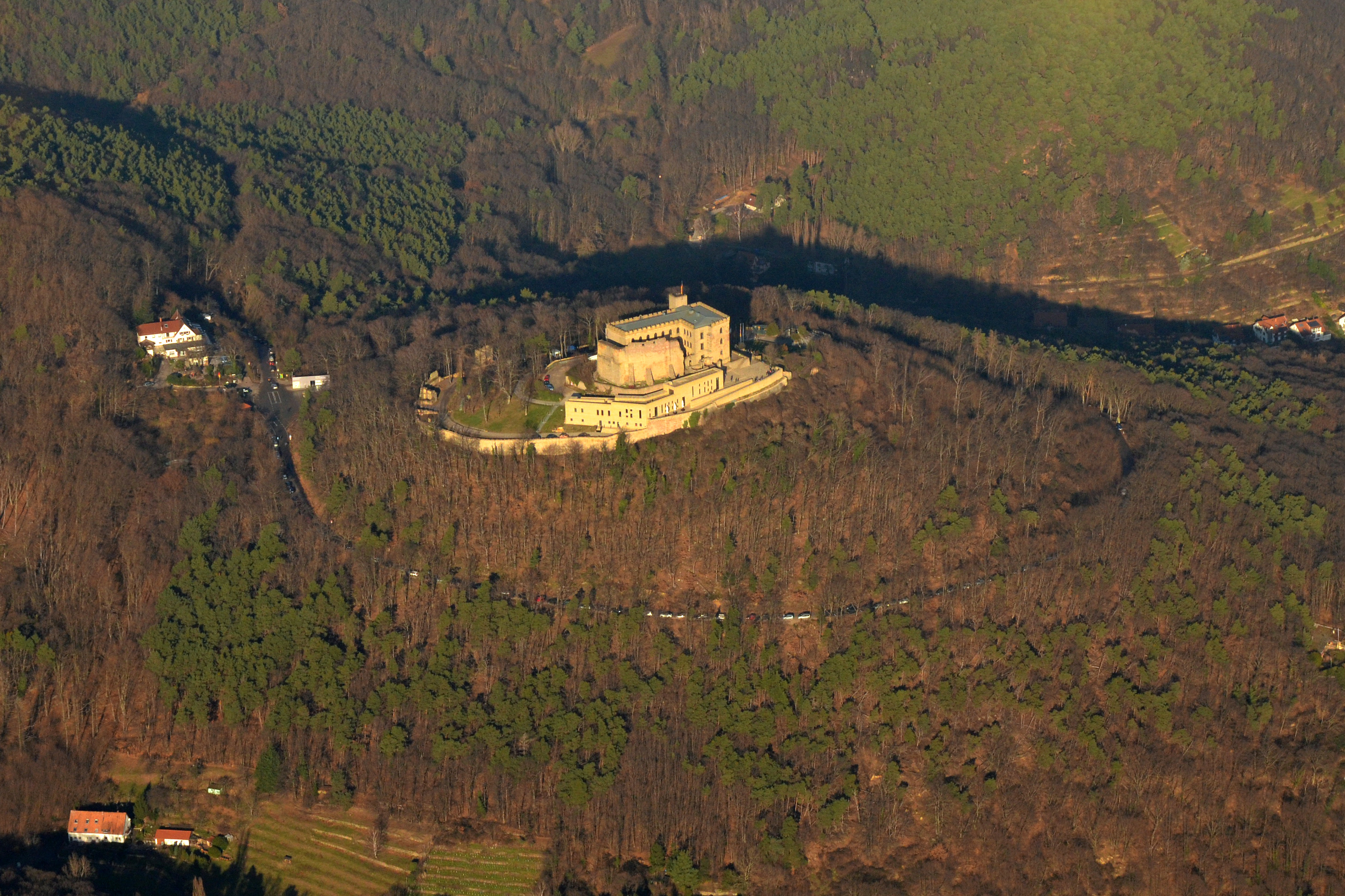 Picture of the Hambach Castel out of an Aircraft.